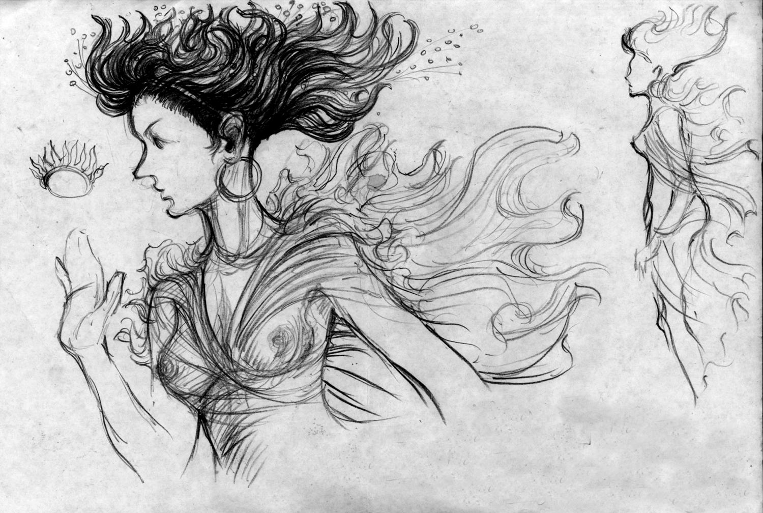 drawing of fire goddess